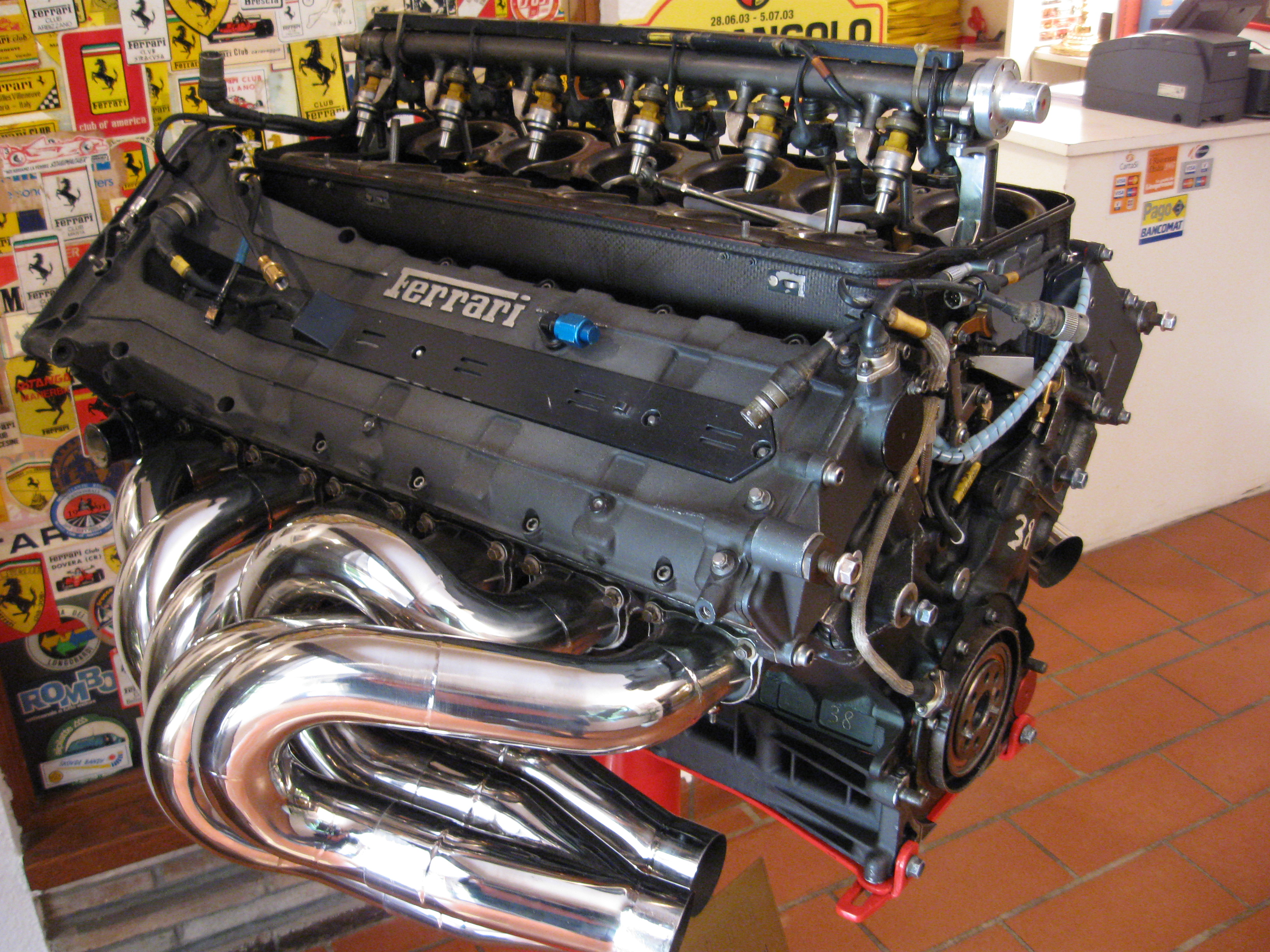 Ferrari V12 Tipo 044 Formula One Grand Prix racing engine (1995 season) at Cavallino Restaurant in Maranello Italy